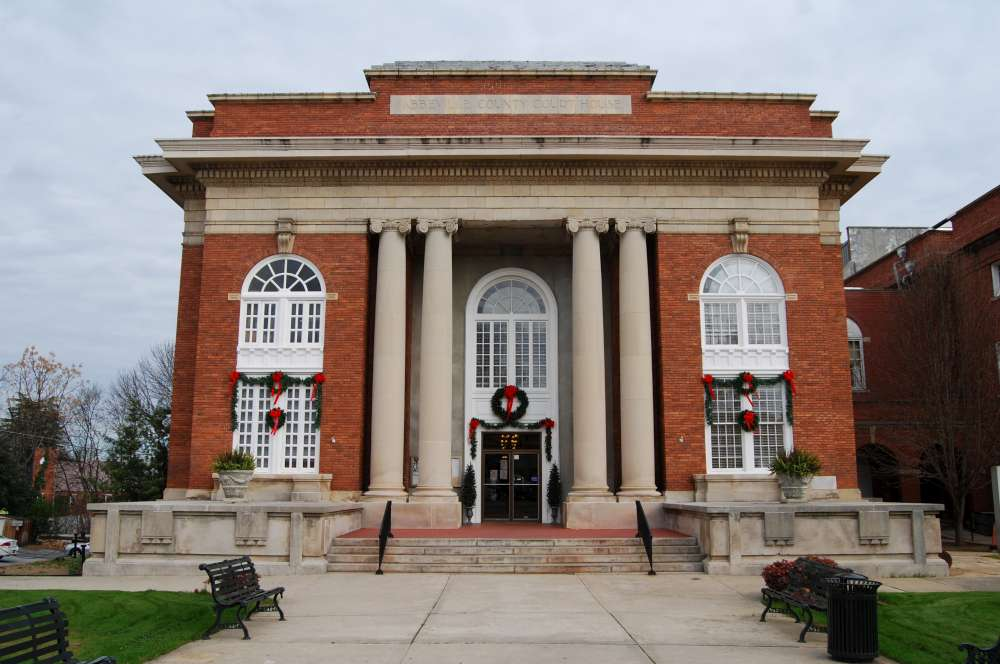 Abbeville County Courthouse, Front (Southwest) Facade